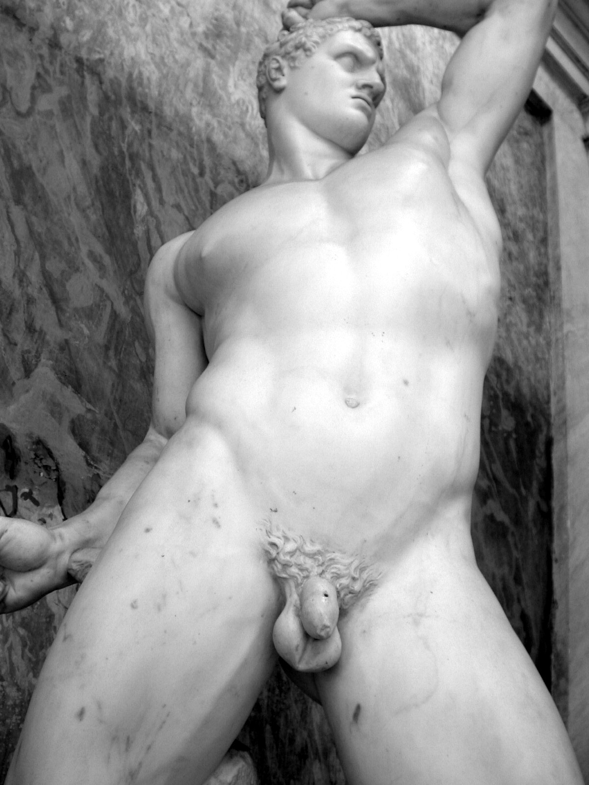 Statue of the boxer Creugas. Marble, ca. 1800.